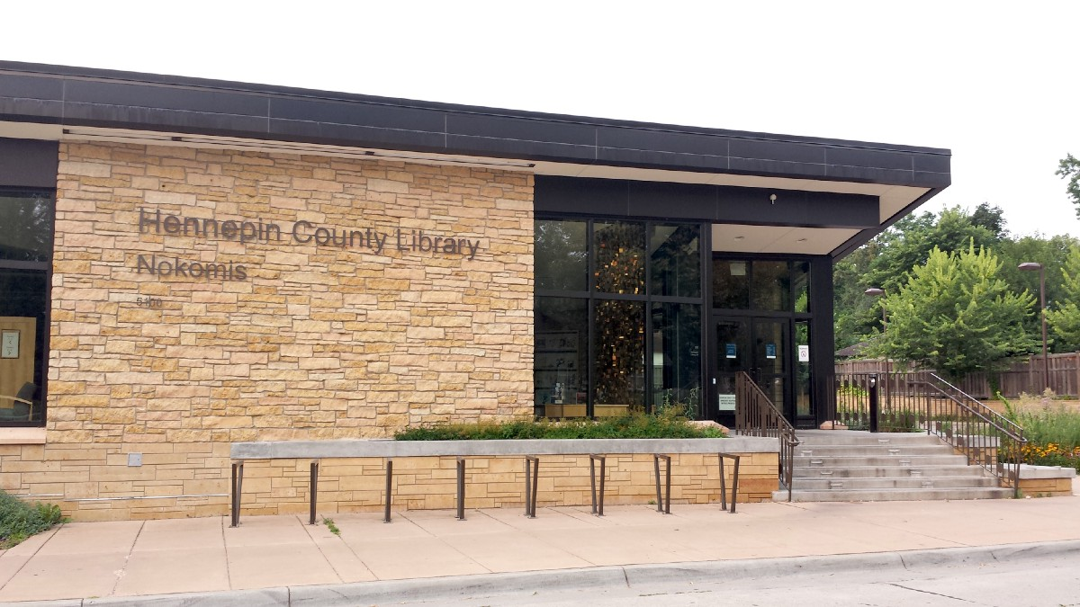 The front entrance along 51st Street of Nokomis Library in Minneapolis, Minnesota.